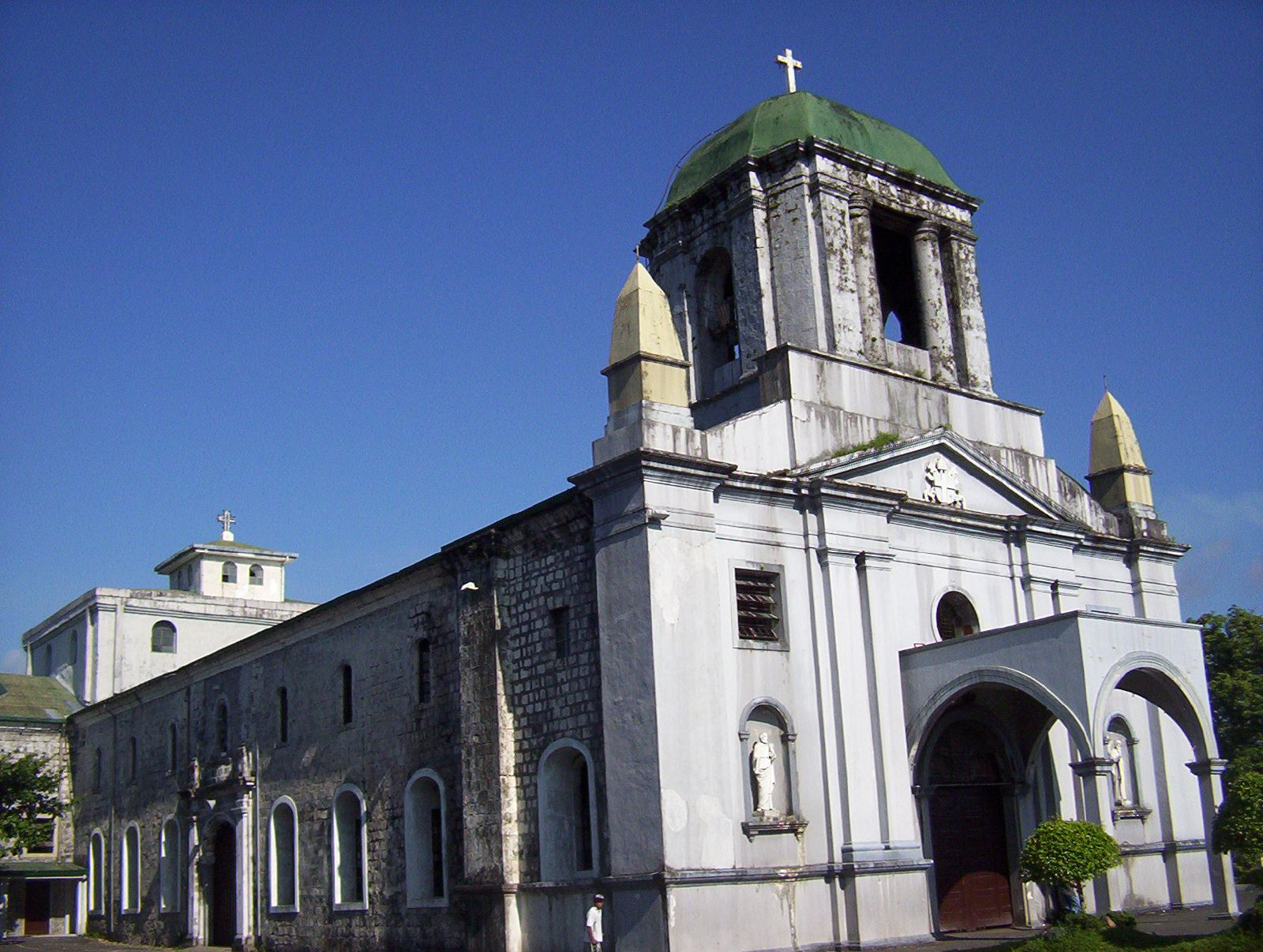 St. Gregory the Great Cathedral, Legazpi City